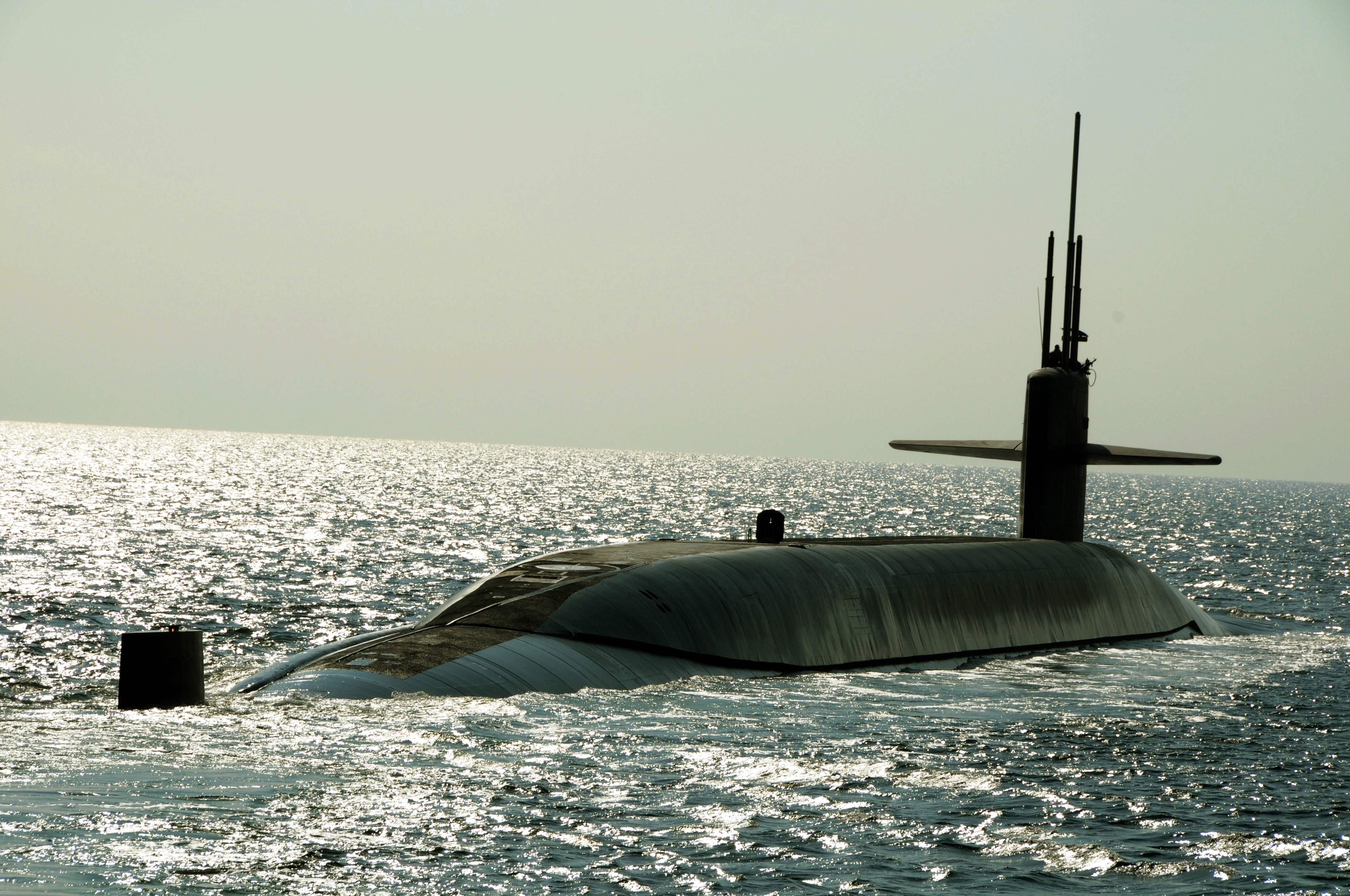 The ballistic missile submarine USS Maryland (SSBN 738) (Gold) transits the Atlantic Intracoastal Waterway as it departs Naval Submarine Base Kings Bay, Ga. for a patrol mission. Naval Submarine Base Kings Bay is the homeport for Ohio class ballistic missile submarines on the east coast.